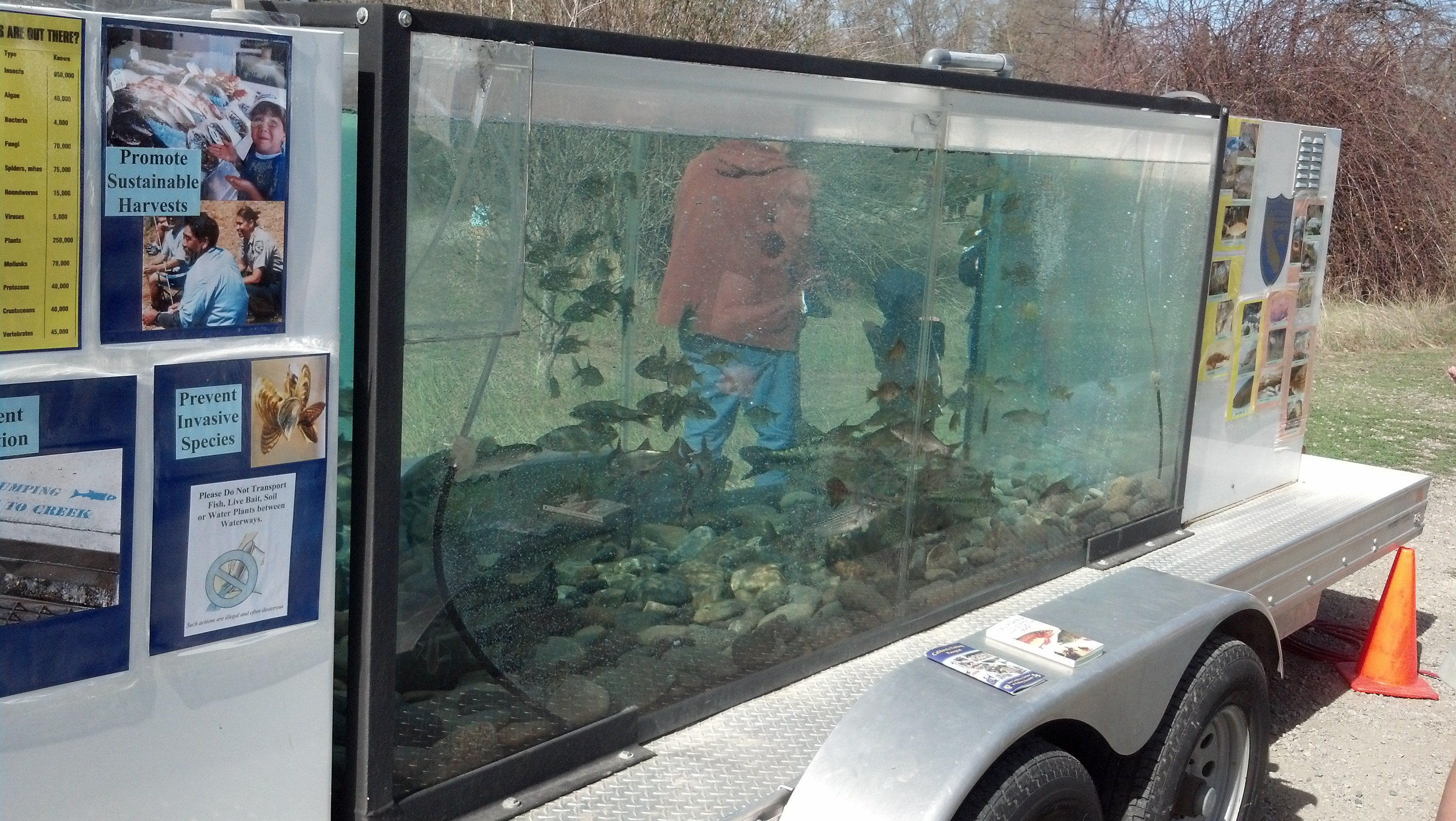 A mobile aquarium operated by the California Department of Fish and Wildlife. Photo by Jim Heaphy.